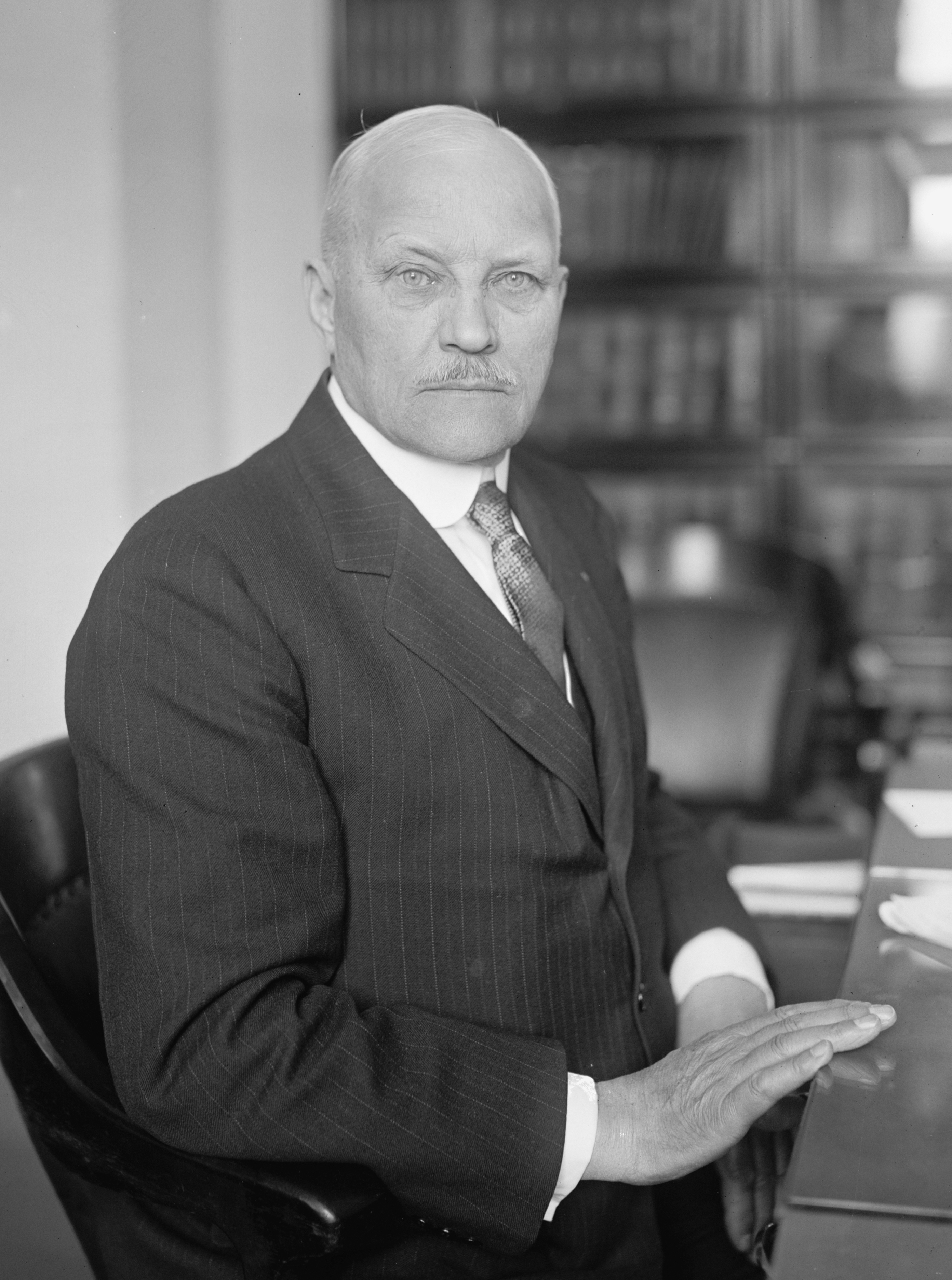 Wilder S. Metcalf of Kan., Commissioner of Pensions, 4/6/25